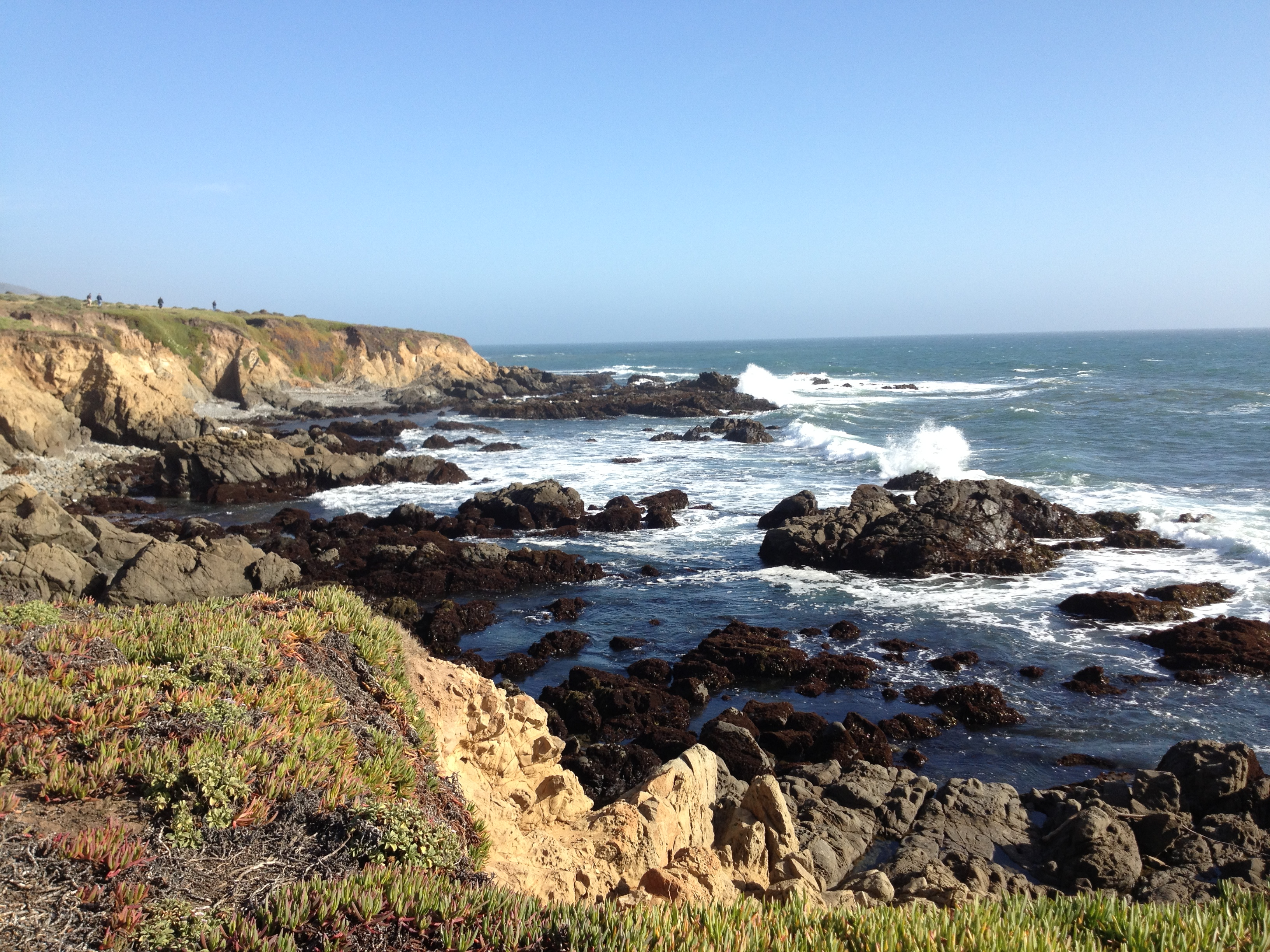 Bluffs and shoreline at Fiscalini Ranch Preserve, Cambria CA